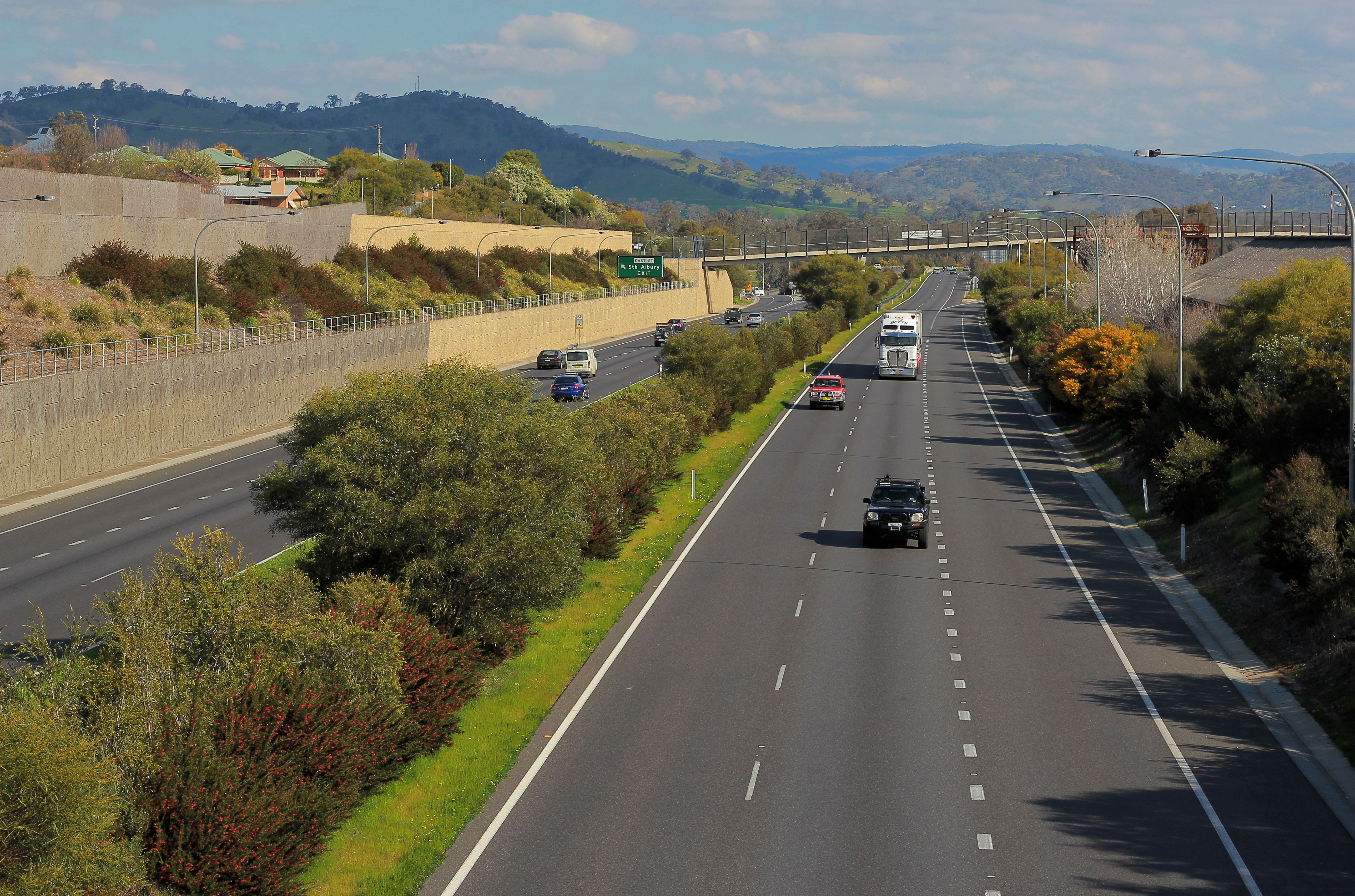 The Hume Freeway bypass at Albury, facing south